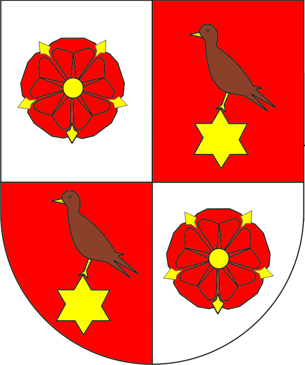 coat of arms 1528-1687